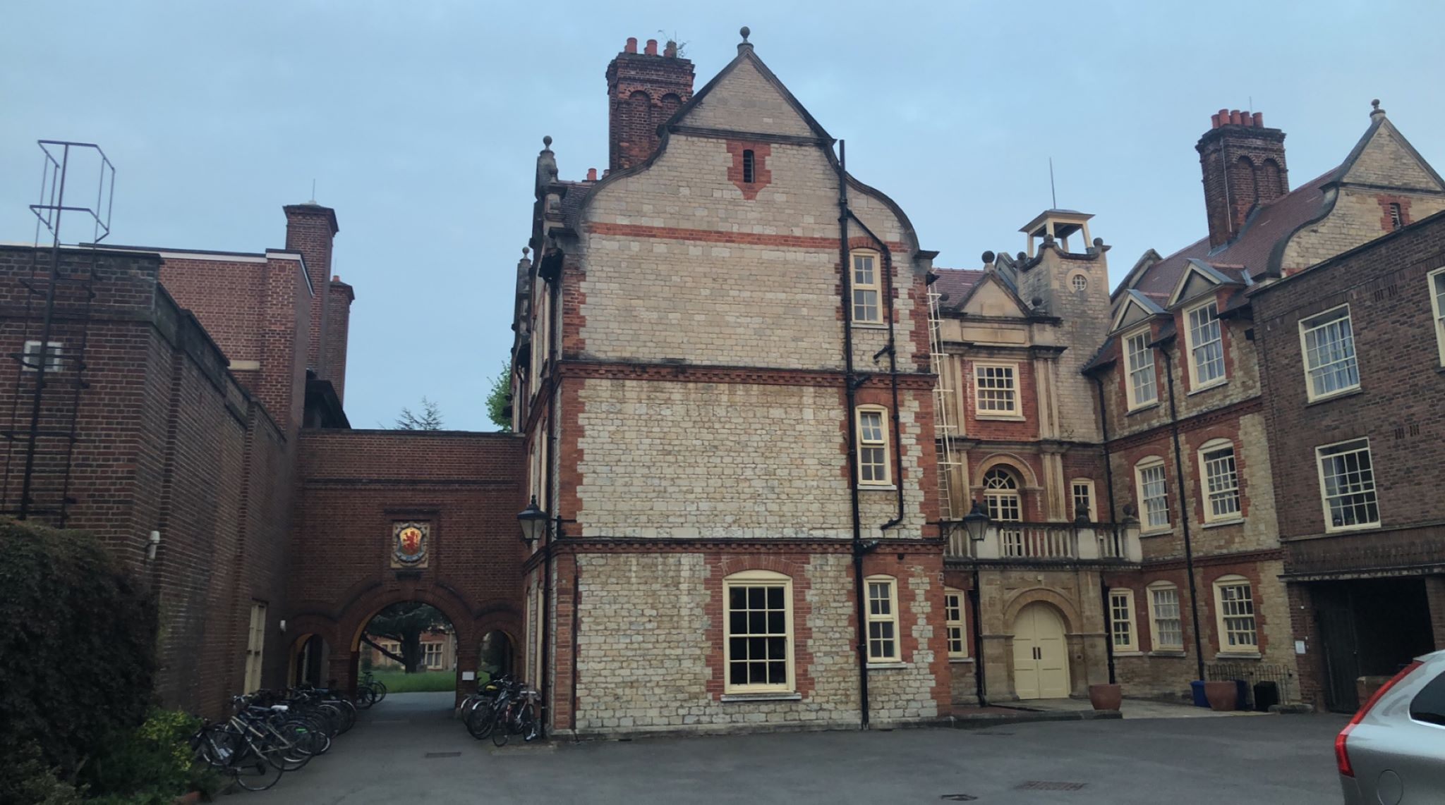 Walton House, Somerville College, University of Oxford, United Kingdom